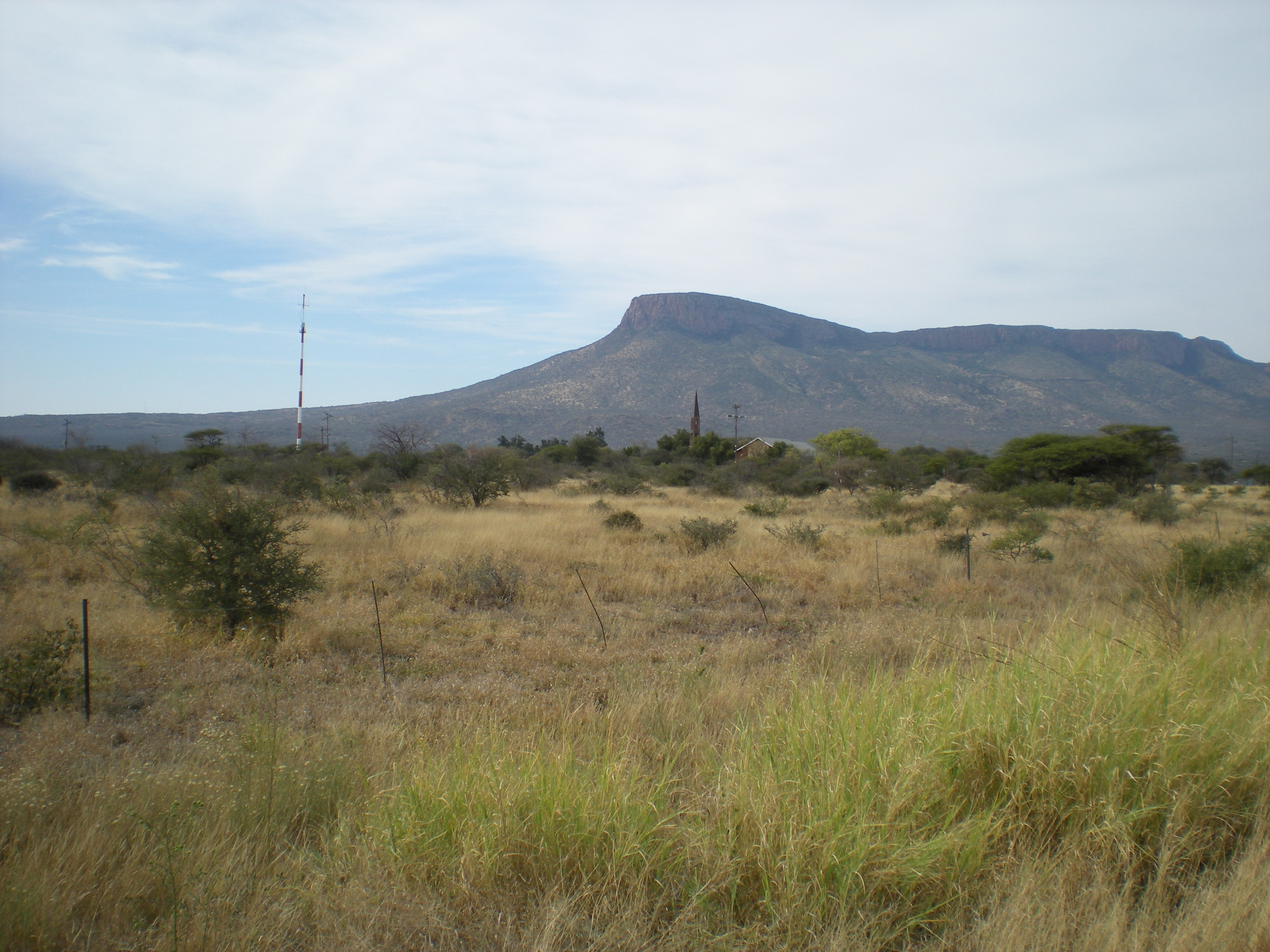 Church steeple in Vivo, Limpopo Province, South Africa. Photograph taken from the road to Schiermonnikoog around noon, Sunday 7 June 2009, close to the main T-junction at the centre of Vivo. The mountains in the background are the western-most peaks of the Soutpansberg.